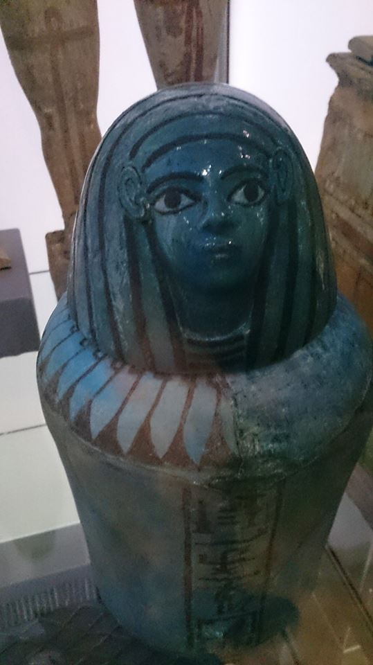 Egyptian Vase in Manchester Museum